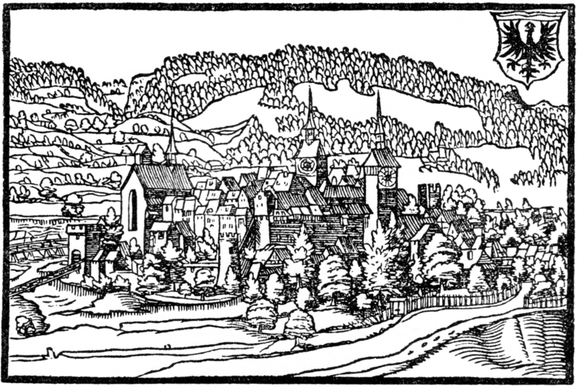 The City of Aarau, Switzerland, in the cronical of Stumpf, 1548